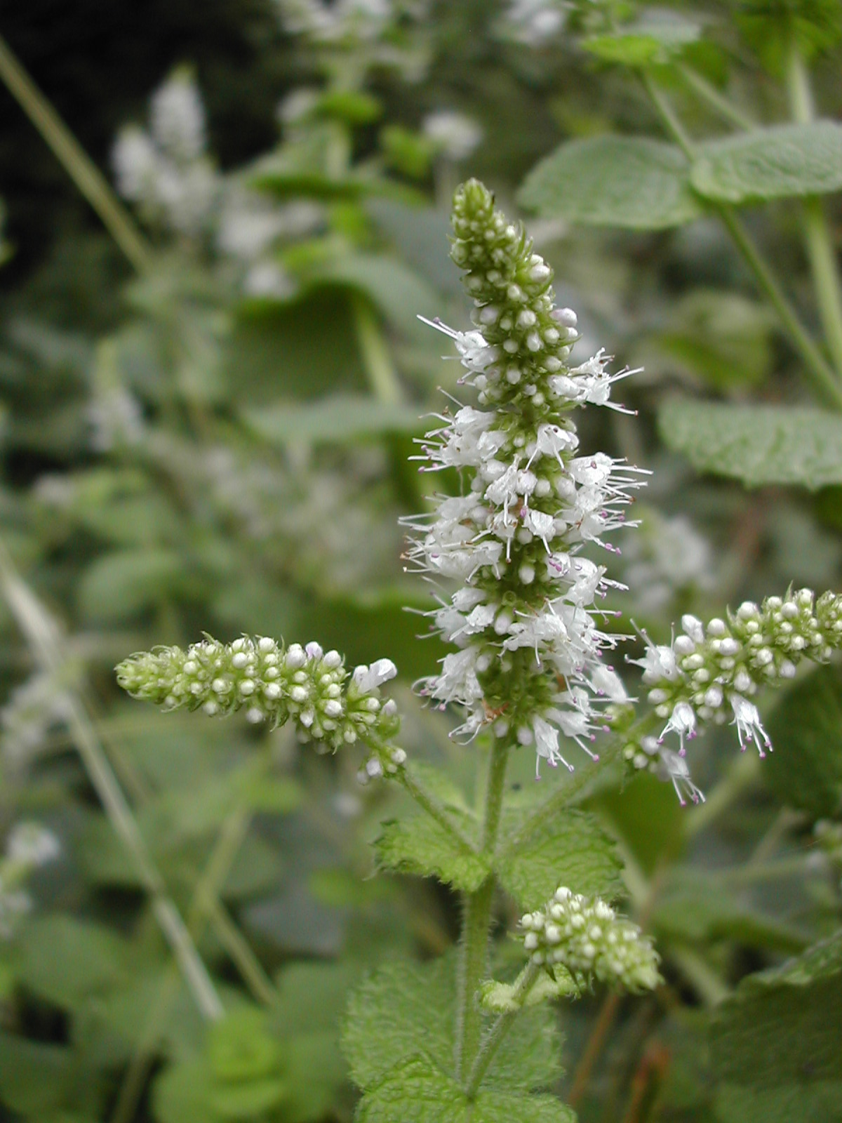 Mentha suaveolens, flowers Source : [1]